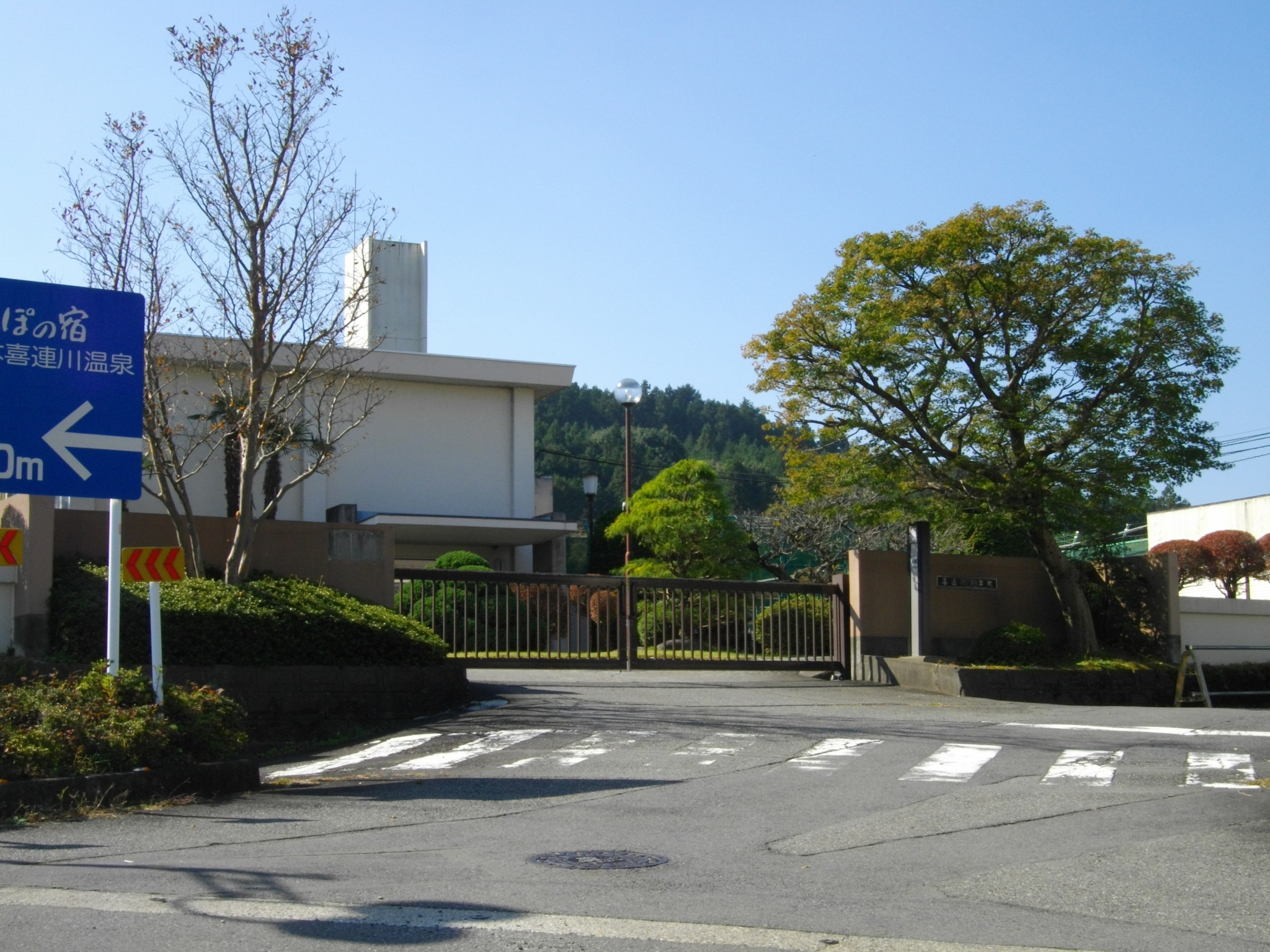 Kitsuregawa Juvenile Training School